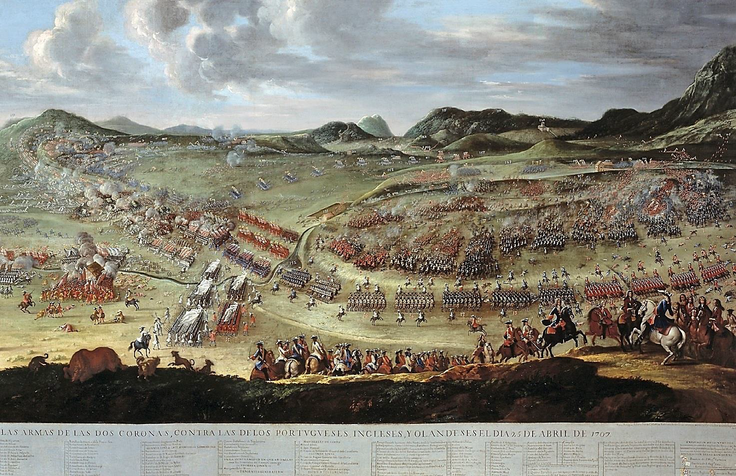 Detail of a painting of the Battle of Almansa. Oil on linen. 161 x 390 cm (original). Museo del Prado, Madrid.